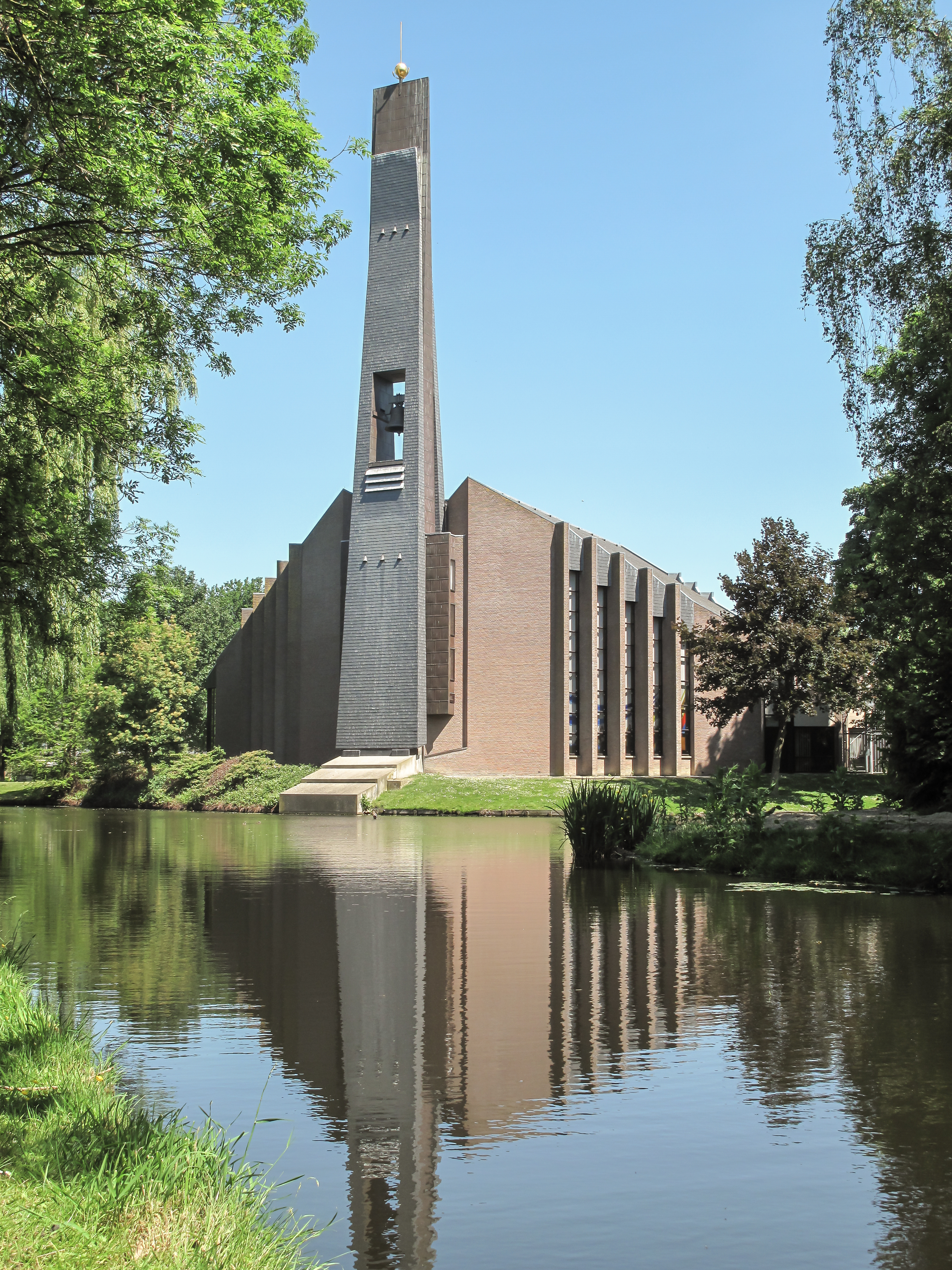 Bunschoten, reformed church:De Fontein